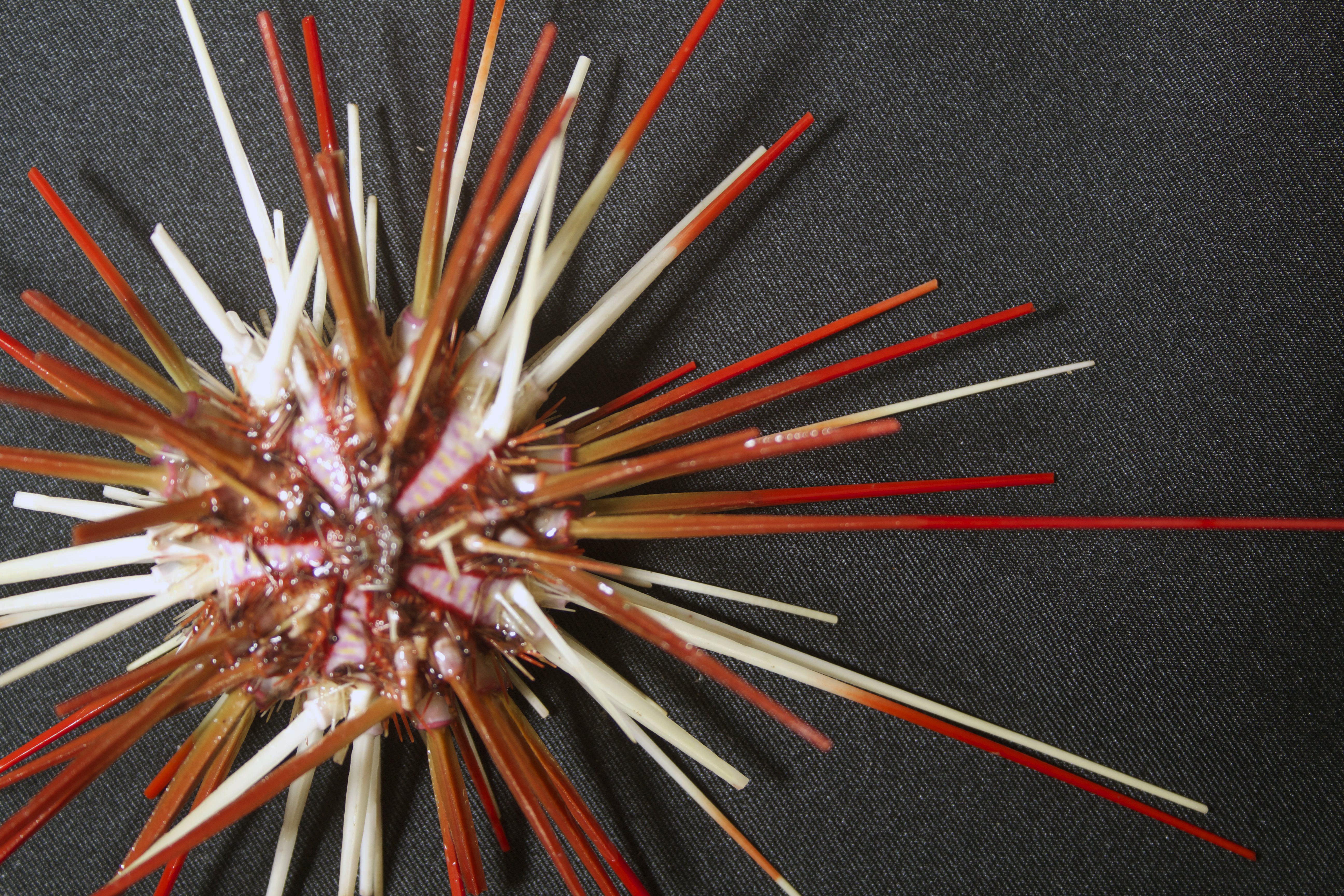 Coelopleurus floridanus, urchin collected offshore from South Carolina, with the Jason II remotely operated vehicle on NOAA Ship Ronald H. Brown. Image courtesy of Liz Baird, Deepwater Canyons 2013 - Pathways to the Abyss, NOAA-OER/BOEM/USGS.